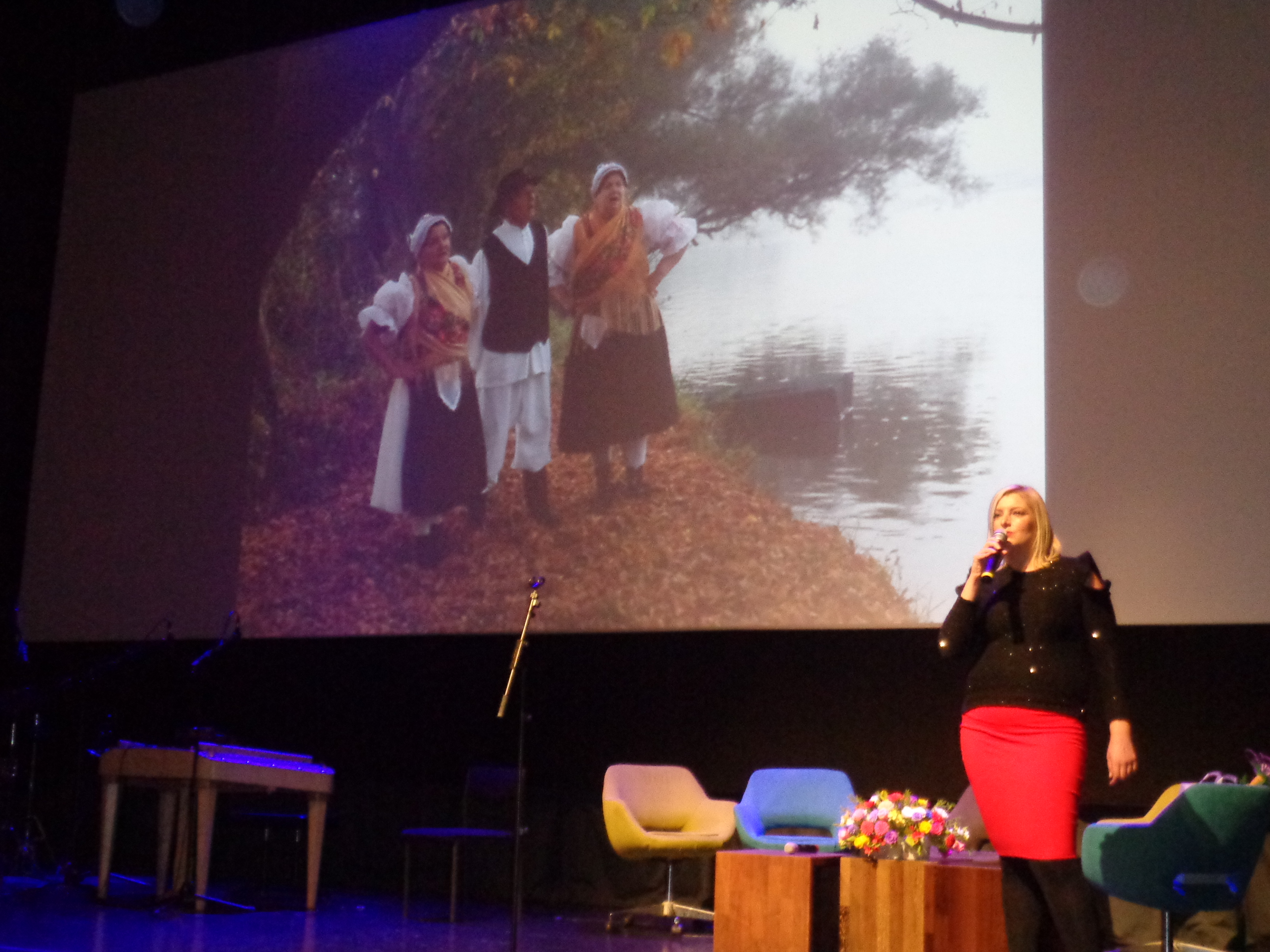 "Medjimurska popevka", a kind of traditional folk songs from Medjimurie, northern Croatia, an Unesco protected cultural heritage - film promotion on 19th December 2018 in Čakovec